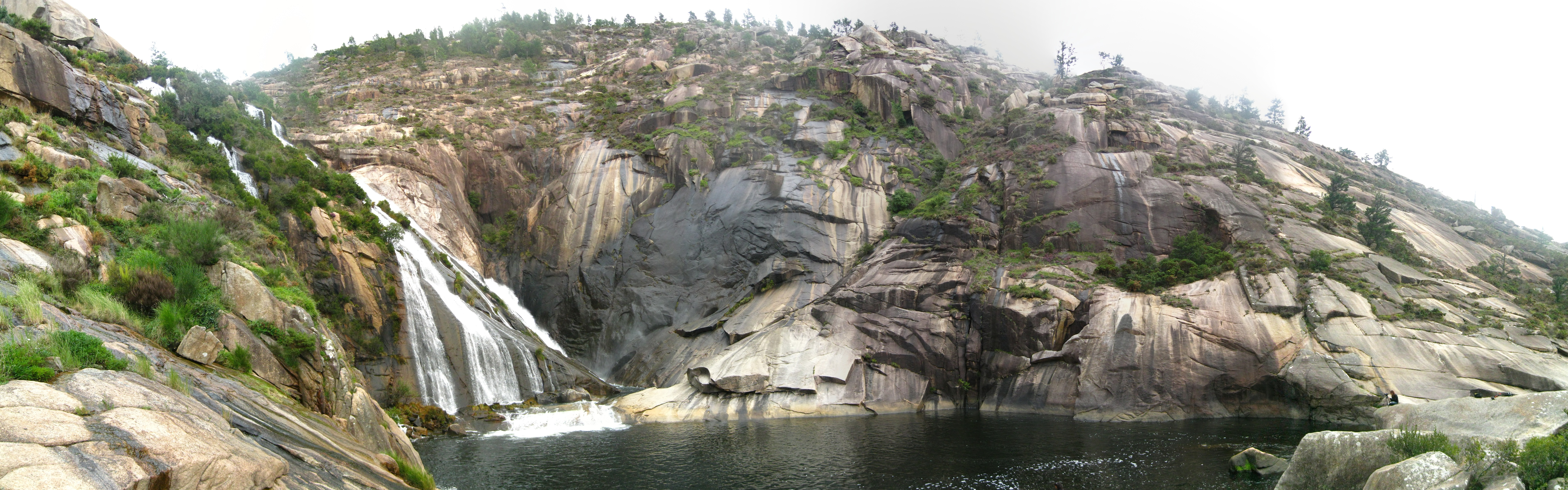 Waterfall in the Xallas river, in Ézaro (Dumbría), Galicia, Spain.